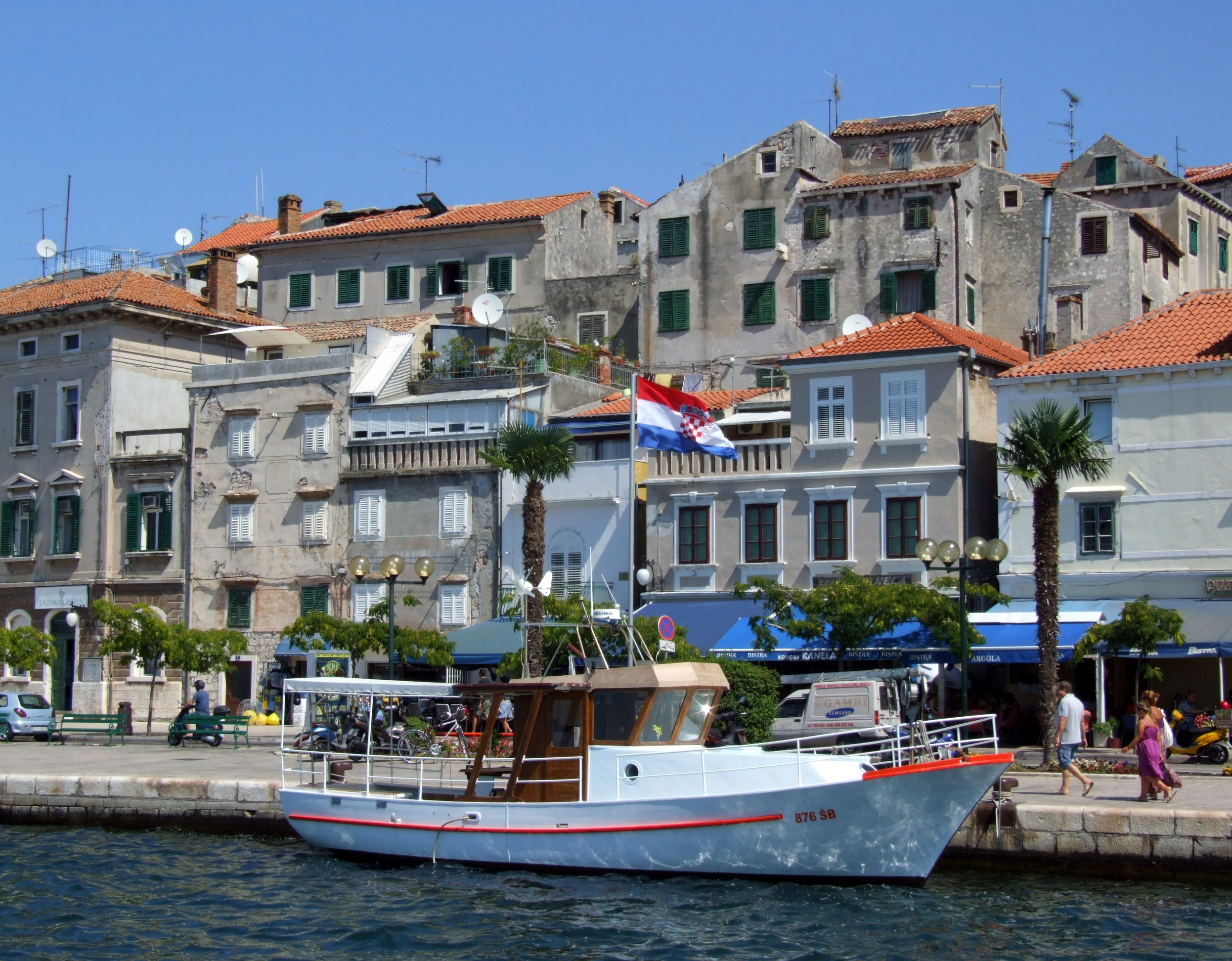 Šibenik, Croatia - harbour